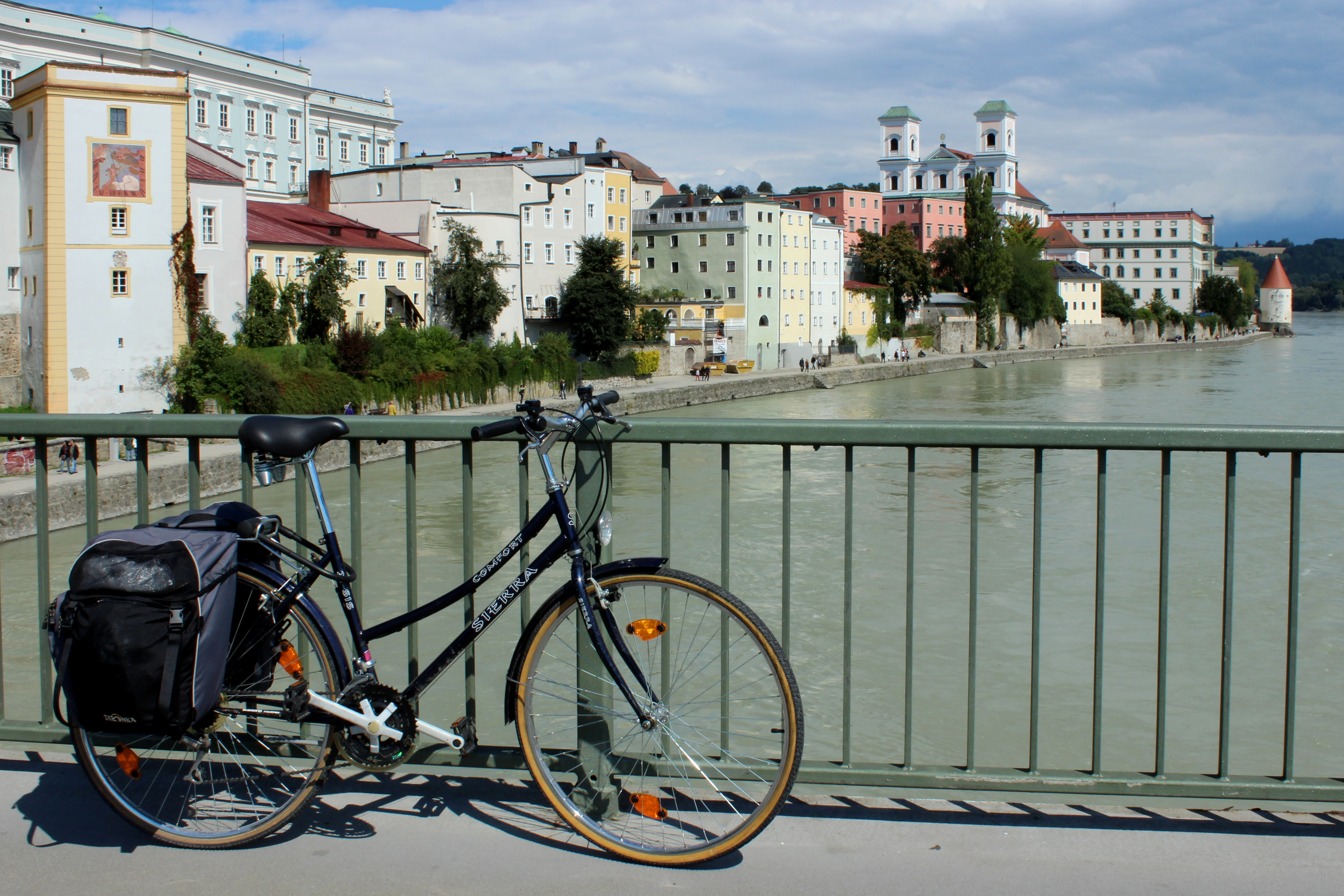 Bike on the Danube Bike Path - crossing the Inn on the Marienbrücke in Passau, the historic center in the background